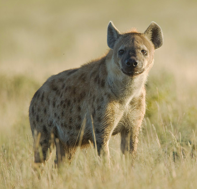 Spotted Hyena from Etosha National Park, Namibia